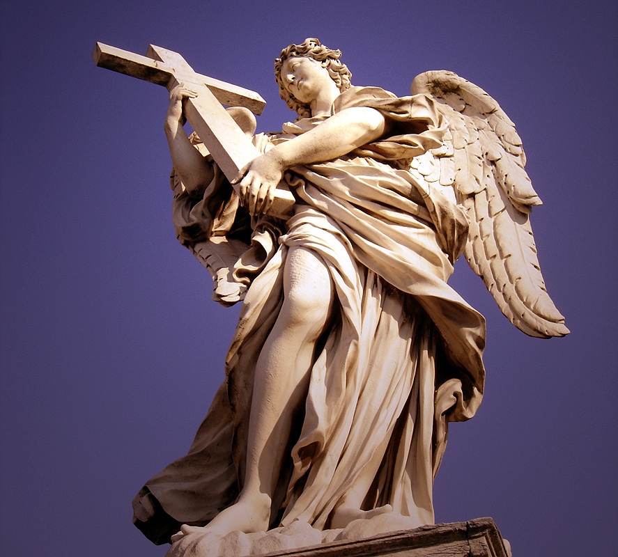 Angel with a Cross, by Ercole Ferrata, Ponte Sant'Angelo, Rome.